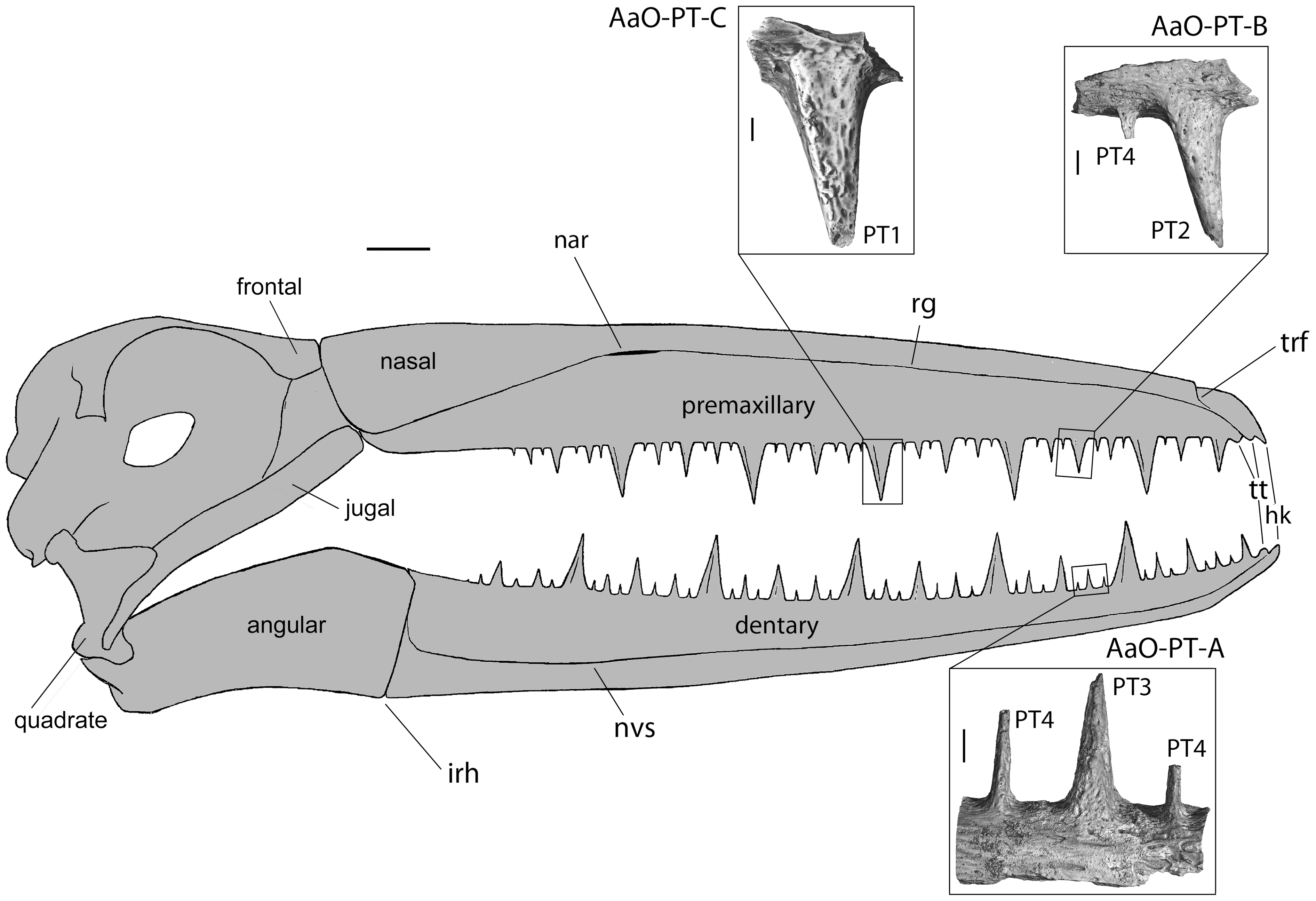 Pelagornis mauretanicus skull in right lateral view, showing the morphology and spatial organization of pseudoteeth. The line drawing of skull is a reconstruction using the general shape in species of Pelagornis. The fossils used in this study are shown magnified in the inserts, with indication of the ranking of the pseudoteeth, based on their relative size, shape and position. Given the fragmentary nature of our specimens, their precise location within or among jaw bones is not known, and their locations shown here are one example among other possibilities. It is however precisely shown to which part of a sequence the specimens belong, and their orientation (latero-medial and caudo-rostral), with the help of more complete series in [7]. hk, hook; irh, intra-ramal hinge; nar, outer narial opening; nvs, neurovascular sulcus; rg, rostral groove; trf, transverse furrow; tt, tomial “teeth” (from [3], [6], [7], [9], [17]). PT, pseudotooth. 1 to 4 indicate the rank of a pseudotooth. Main frame scale bar = 2 cm. Scale bar in inserts = 2 mm.